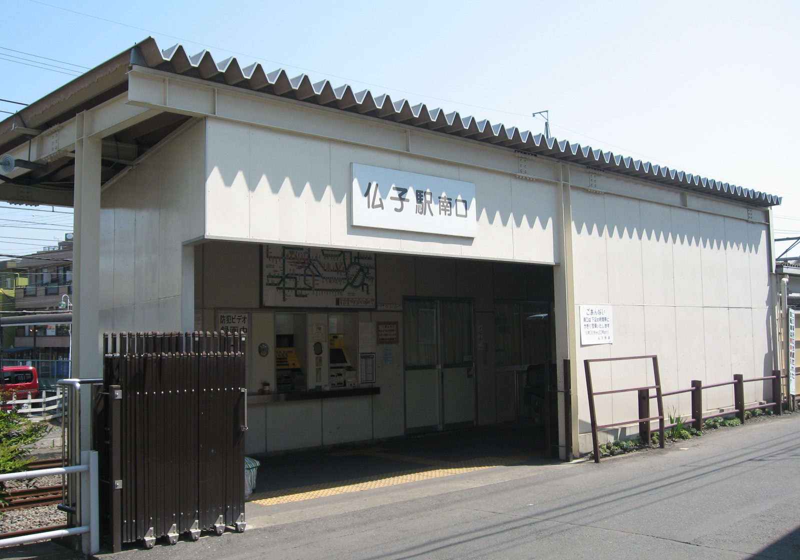 South Entrance of Bushi Station, Seibu Railway Ikebukuro Line. Bushi, Iruma, Saitama, Japan.